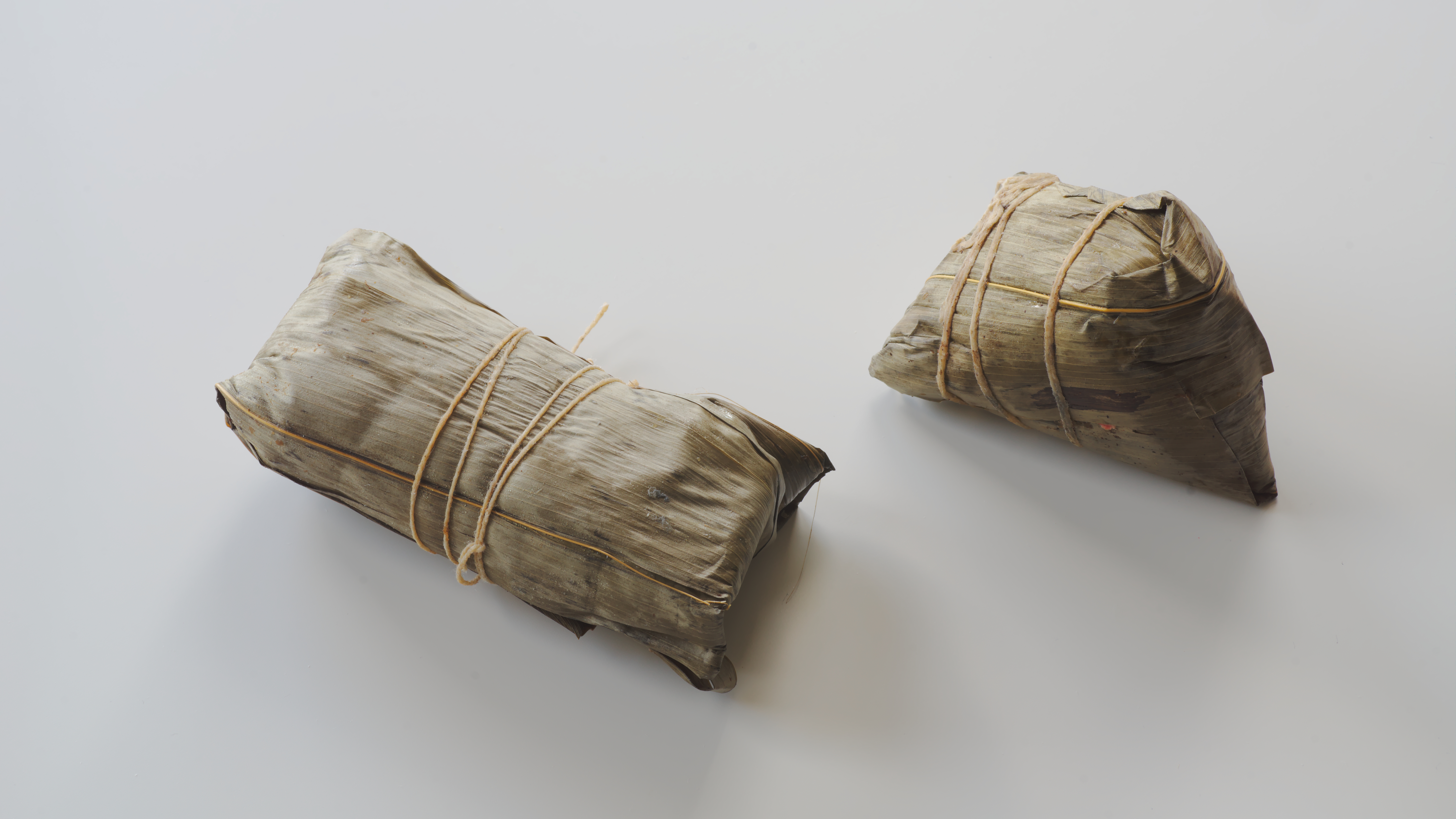 Zongzi is a traditional Chinese food, consisting of glutinous rice with various fillings wrapped in large flat leaves. These are usually tetrahedral in shape (right), but regional variations offer other shapes, such as the cigar shape on the left. The one on the left is purportedly Beijing-style; the right Taiwanese.